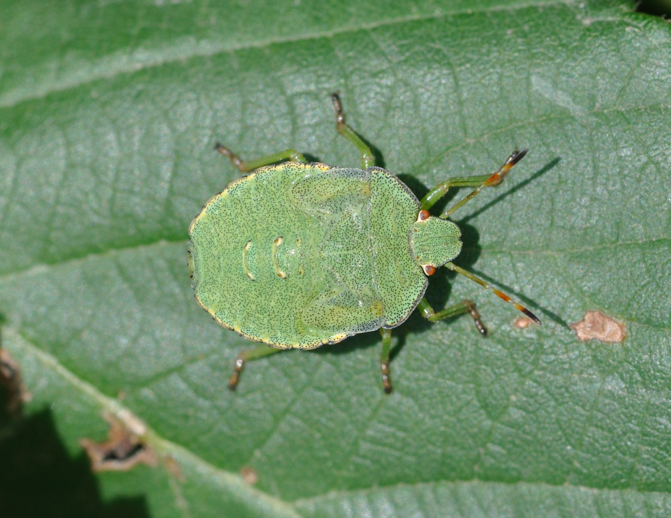 Larva of a Green Shield Bug (Palomena prasina) in Oberursel, Germany.